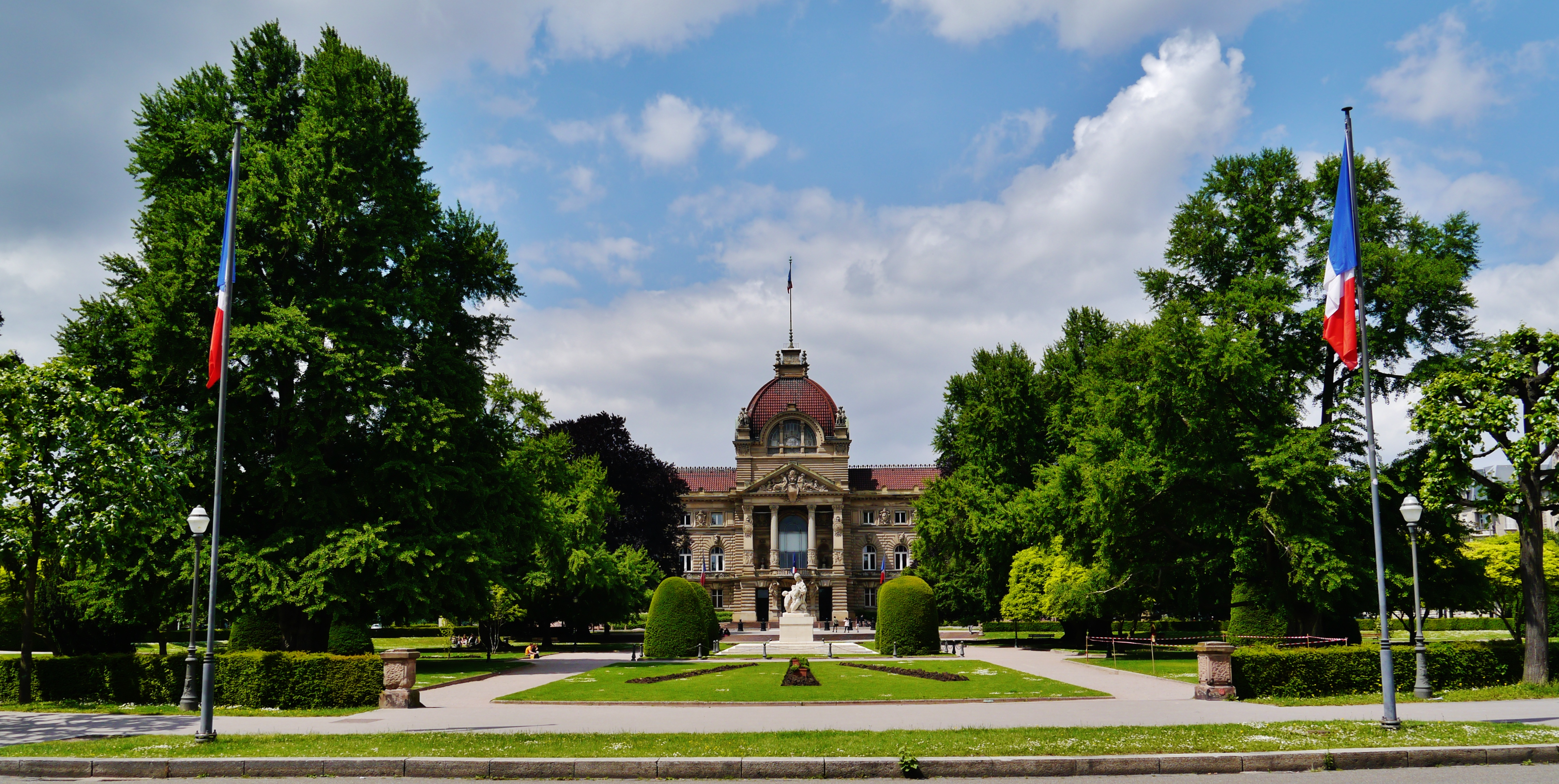 Emperor's Palace/today Palace of the Rhine, Strasbourg, Alsace, France